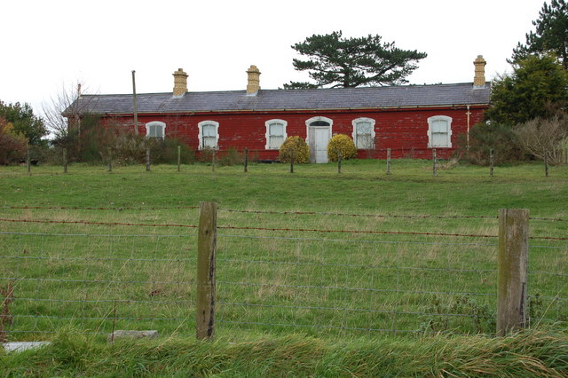 Former railway station at Ballyward (1) The GNR(I) line from Knockmore Jct to Castlewellan closed in 1955. Ballyward station has achieved a certain celebrity status because it is still, more or less, intact. This is the station building. The platforms and track were on the other side.